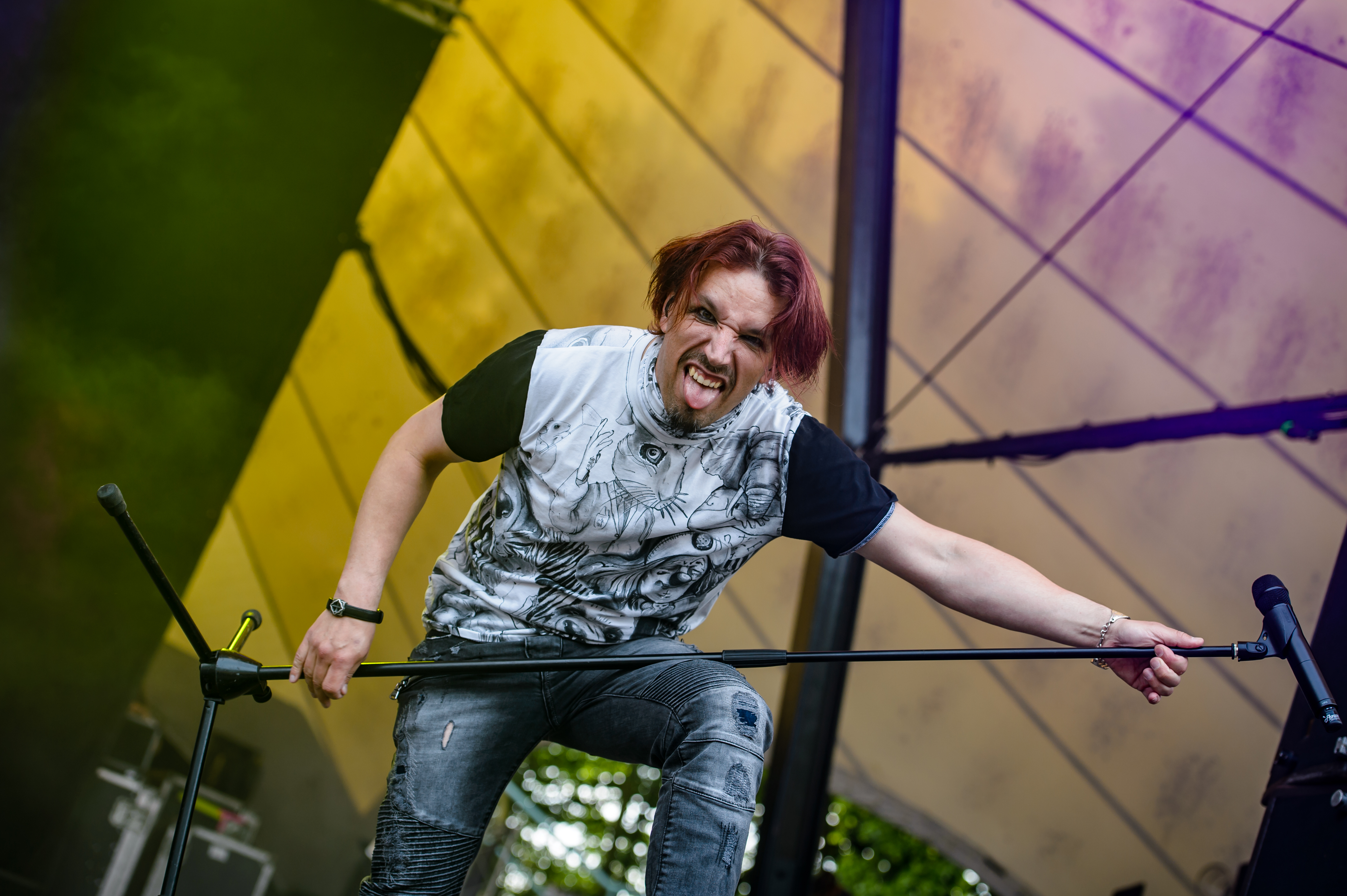 Sonata Artica; RockFels 2016 - Loreley